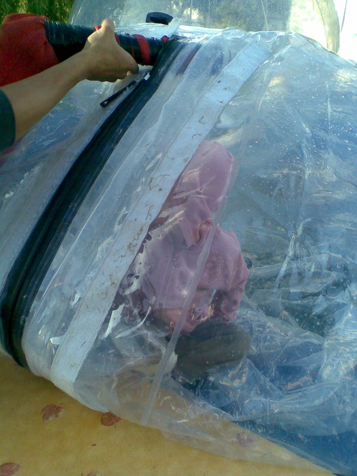 Water ball pumping